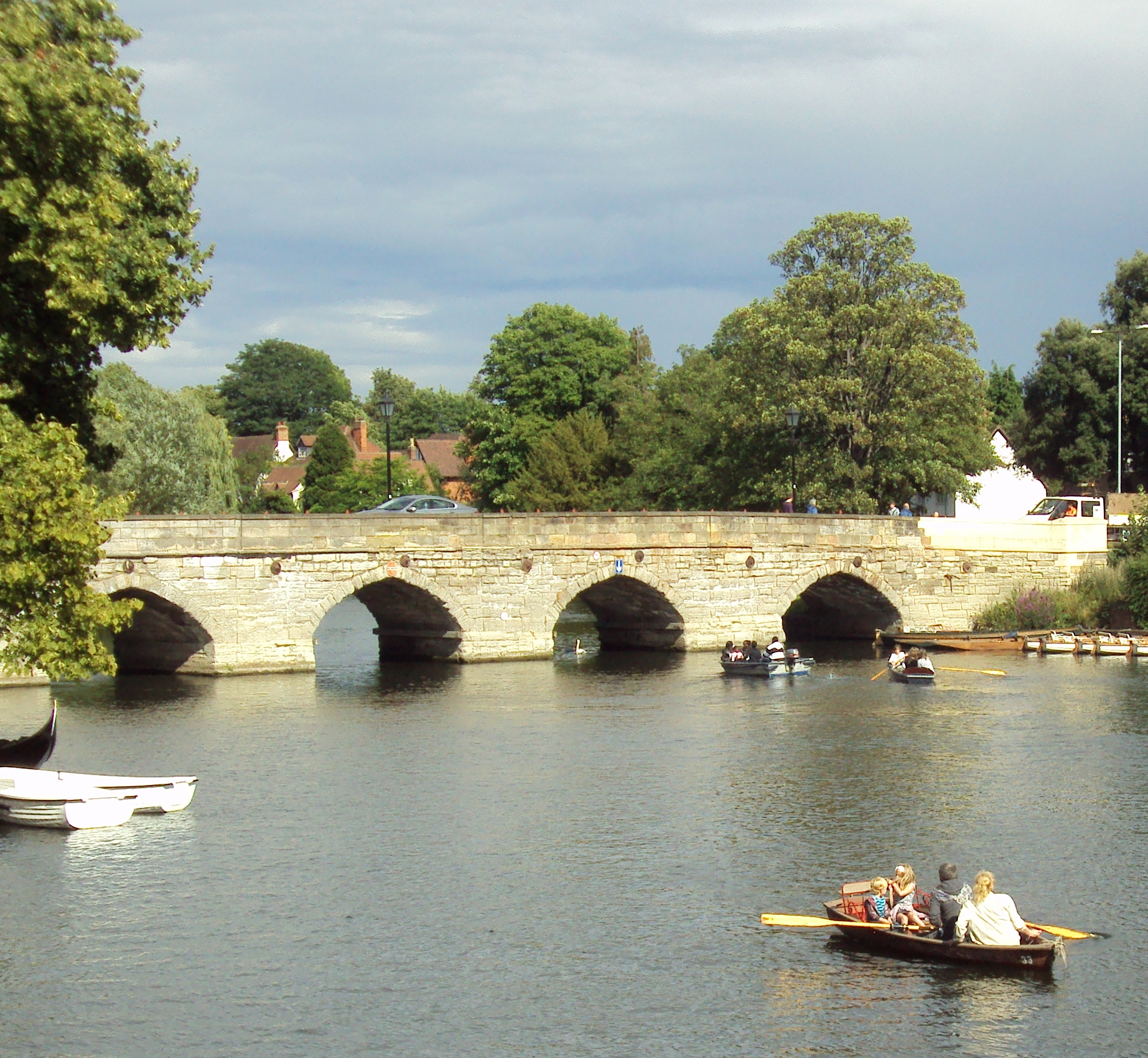 A view of the River Avon and part of the 14-arch Clopton Bridge at Stratford-upon-Avon, England.